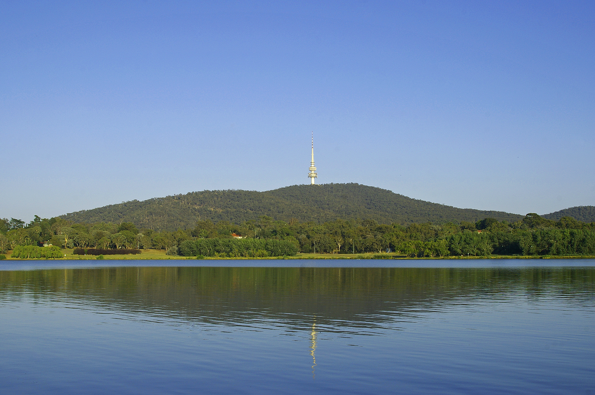 Black Mountain and Black Mountain Tower viewed from Lake Burley Griffin in Canberra.